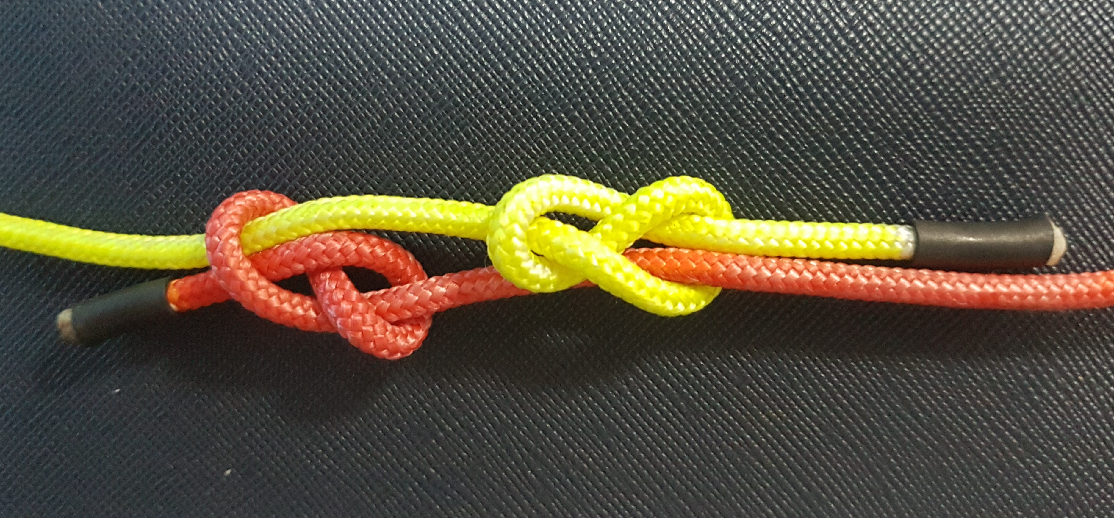 Nog 'n manier om die Syfer 8-knoop te gebruik om twee toue te las.